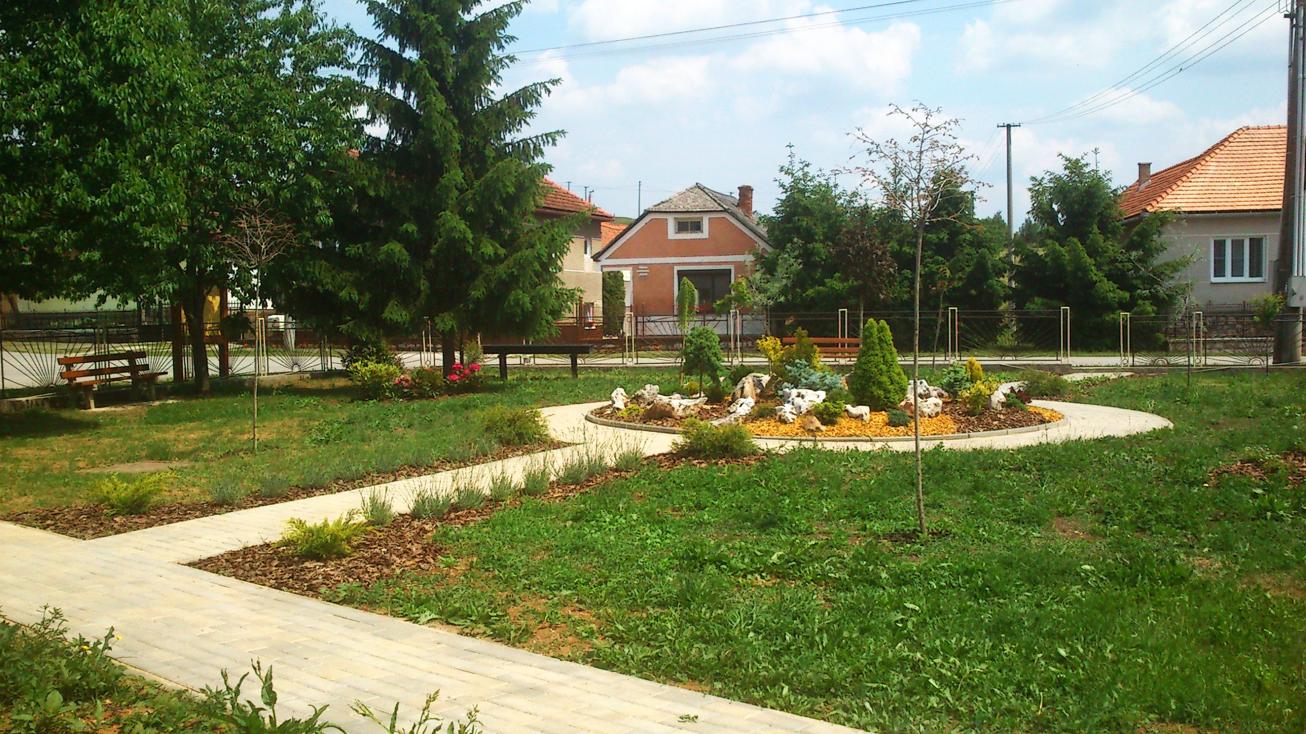 Park